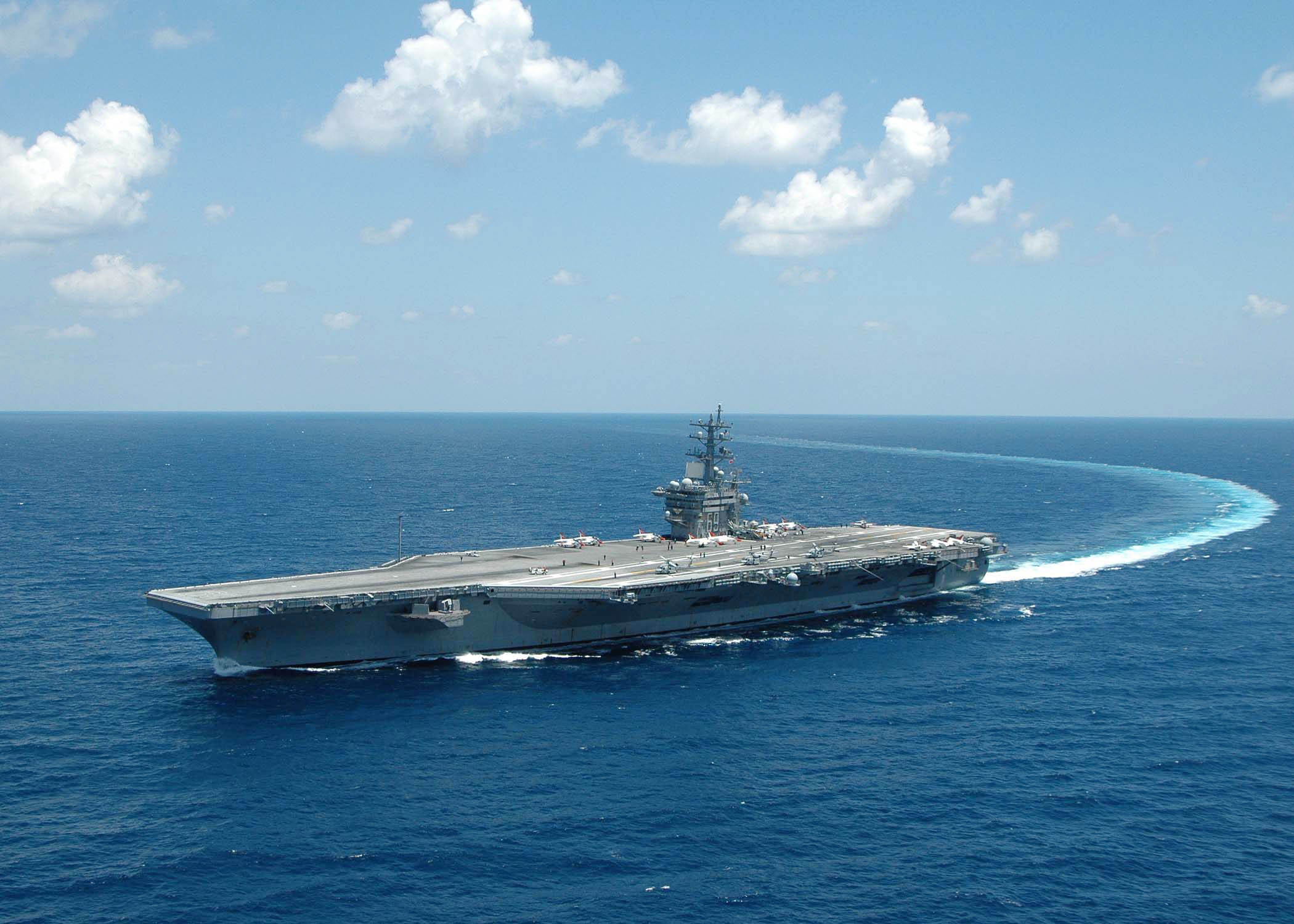 Atlantic Ocean (June 17, 2006) - The Nimitz-class aircraft carrier USS Dwight D. Eisenhower (CVN 69) conducts a turn in the Atlantic Ocean. Eisenhower is underway conducting routine carrier operations. U.S. Navy photo by Photographer's Mate 2nd Class Miguel A. Contreras (RELEASED)